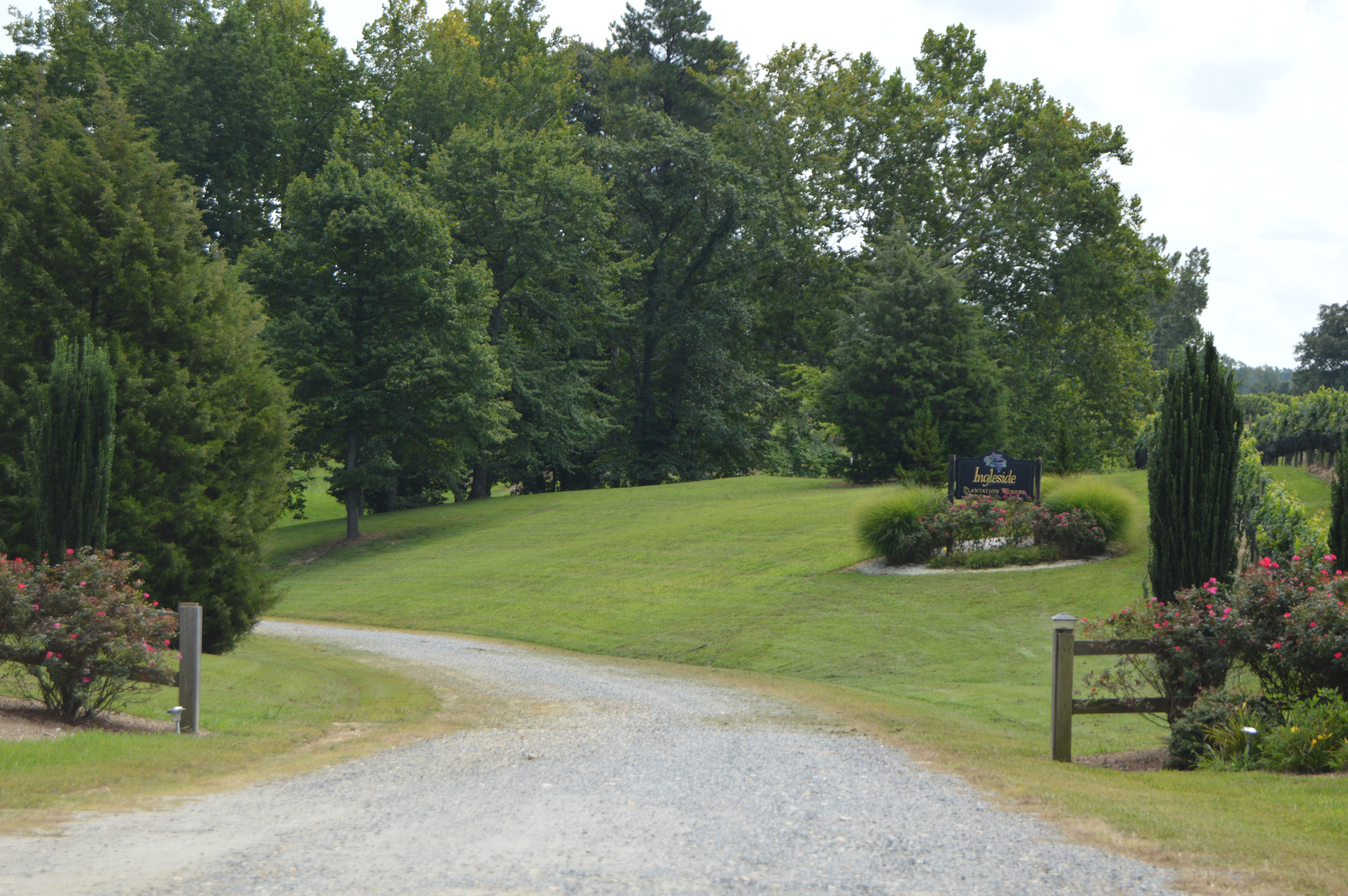 Entrance to the Ingleside estate, seen looking east from Leedstown Road south of Oak Grove in Westmoreland County, Virginia, United States. The plantation is listed on the National Register of Historic Places.